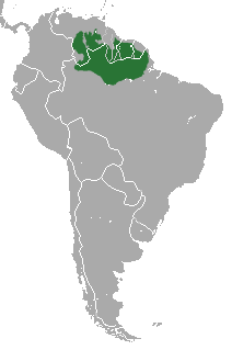 Red-backed Bearded Saki (Chiropotes chiropotes) range